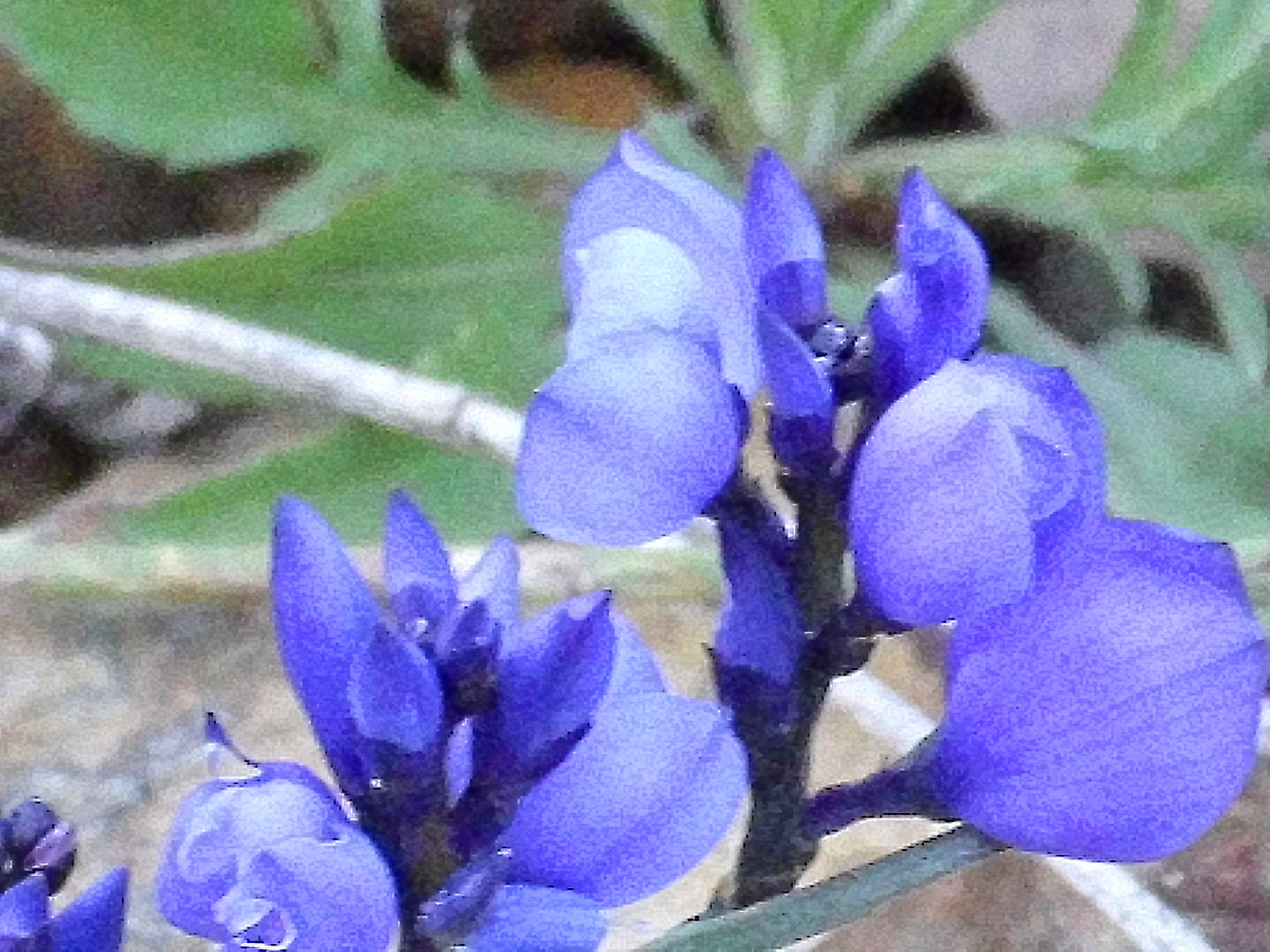 Polygala microphylla flowers closeup, Sierra Madrona, Spain